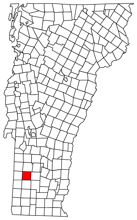 Description: Map of Vermont towns with Manchester highlighted Source: Map created by Jared C. Benedict on 26 March 2004. Copyright: © Jared C. Benedict.